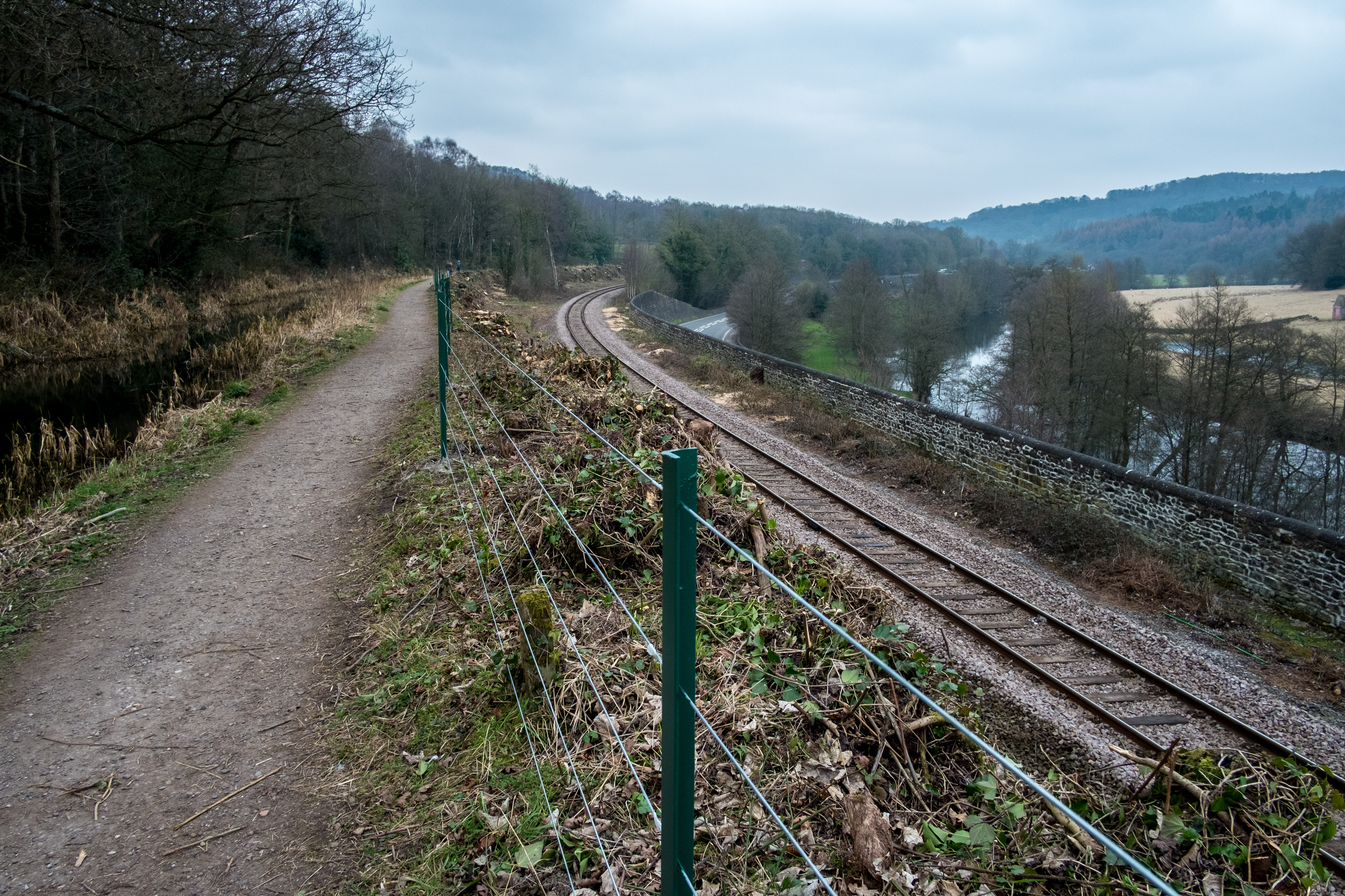 Looking South along the Cromford Canal, about 1km South of Whatstandwell. The picture clearly shows the four forms of transport along this section of the valley, from left to right: the canal and its towpath, railway line, road (the A6) and the river Derwent.